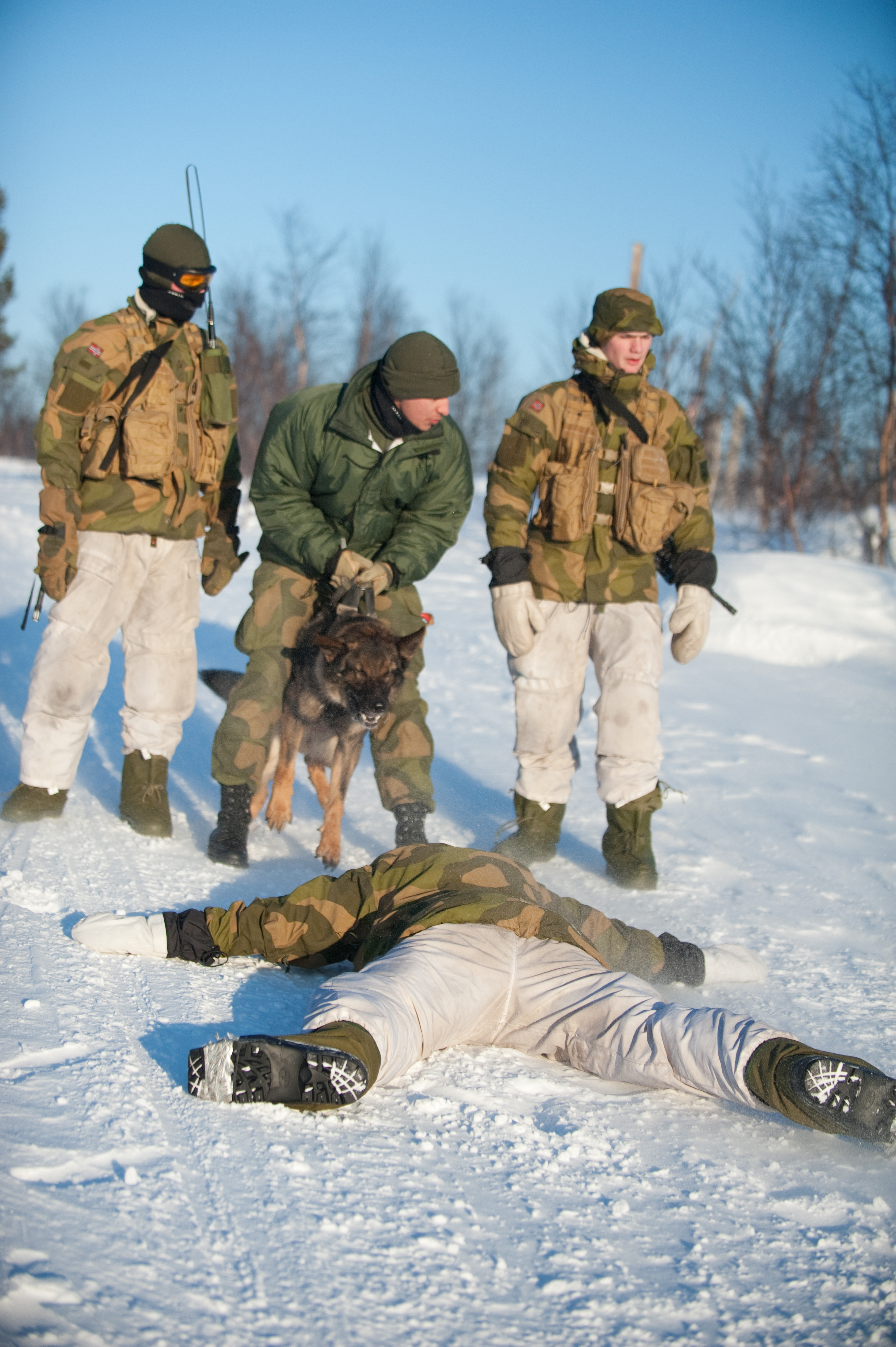 GSV (35 of 46)